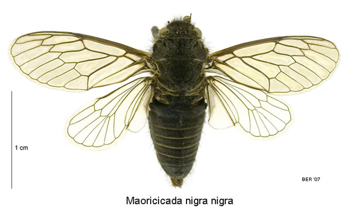 Dorsal view of a male specimen of Maoricicada nigra nigra photographed by Birgit E. Rhode, Landcare Research New Zealand Ltd.